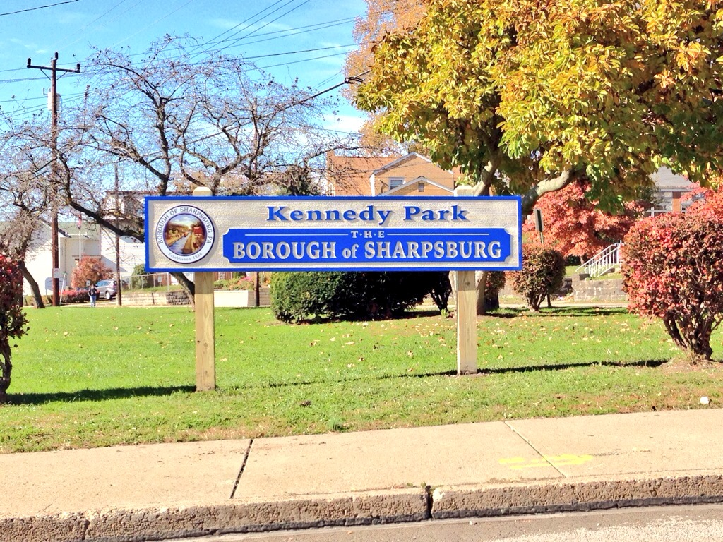 Kennedy Park, located in the Canal District of Sharpsburg.